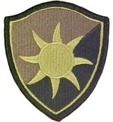 50th RSG multicam patch